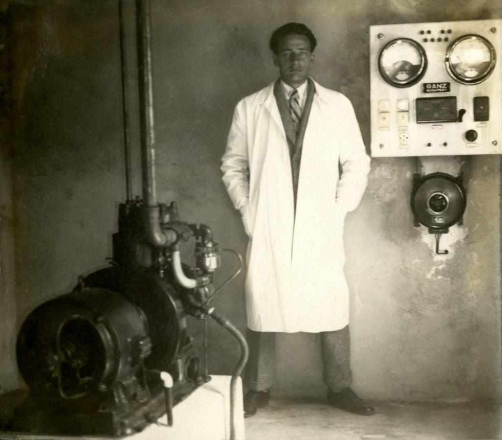 Hubert Kessler with generator of Baradla Cave in Jósvafő